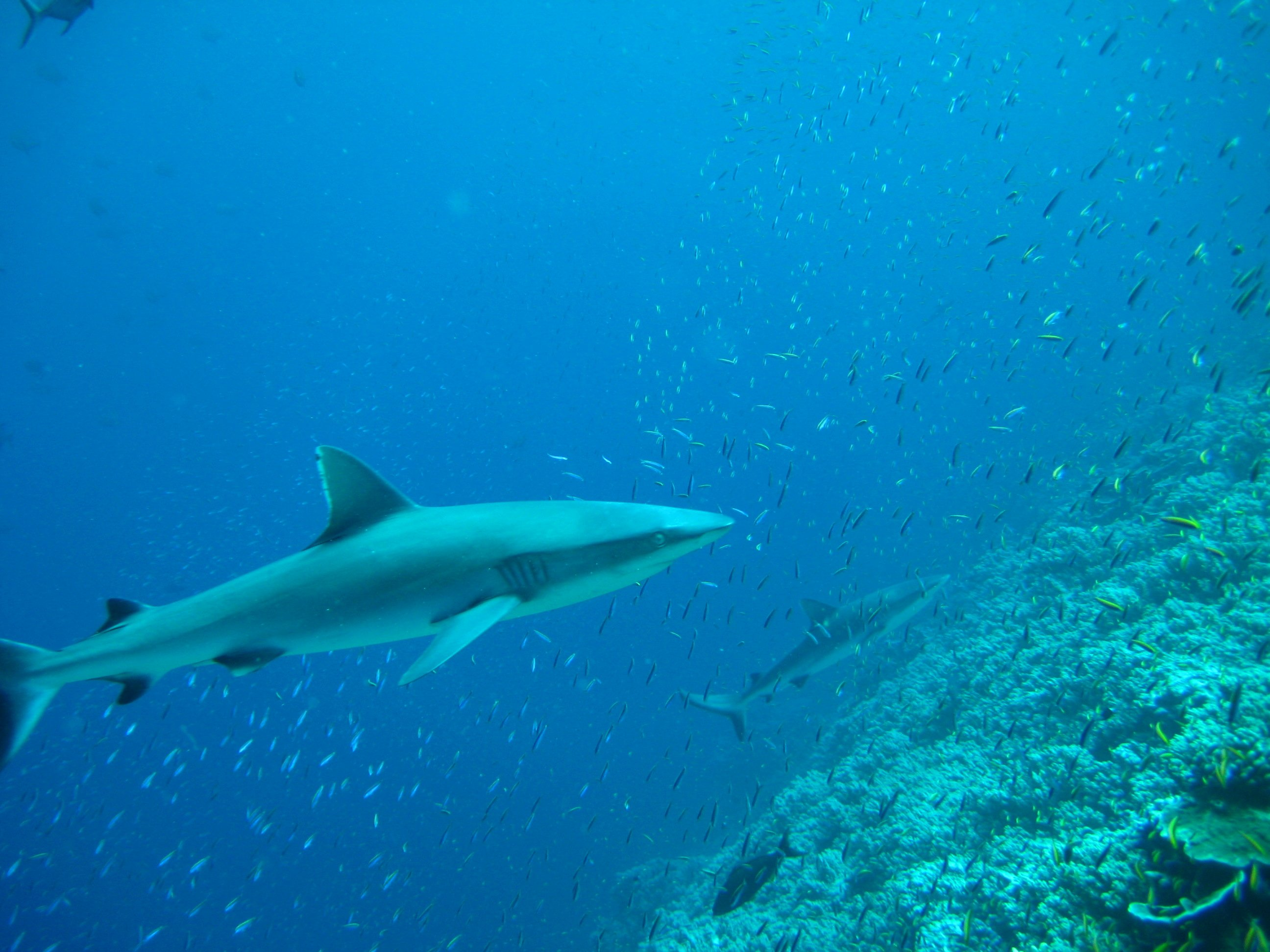 Grey reef sharks (Carcharhinus amblyrhynchos) at Jarvis Island. *species is misidentified on source webpage*